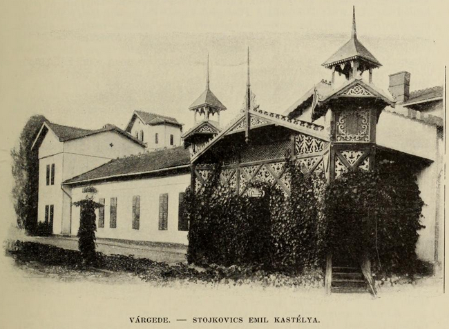 Castle in Várgede